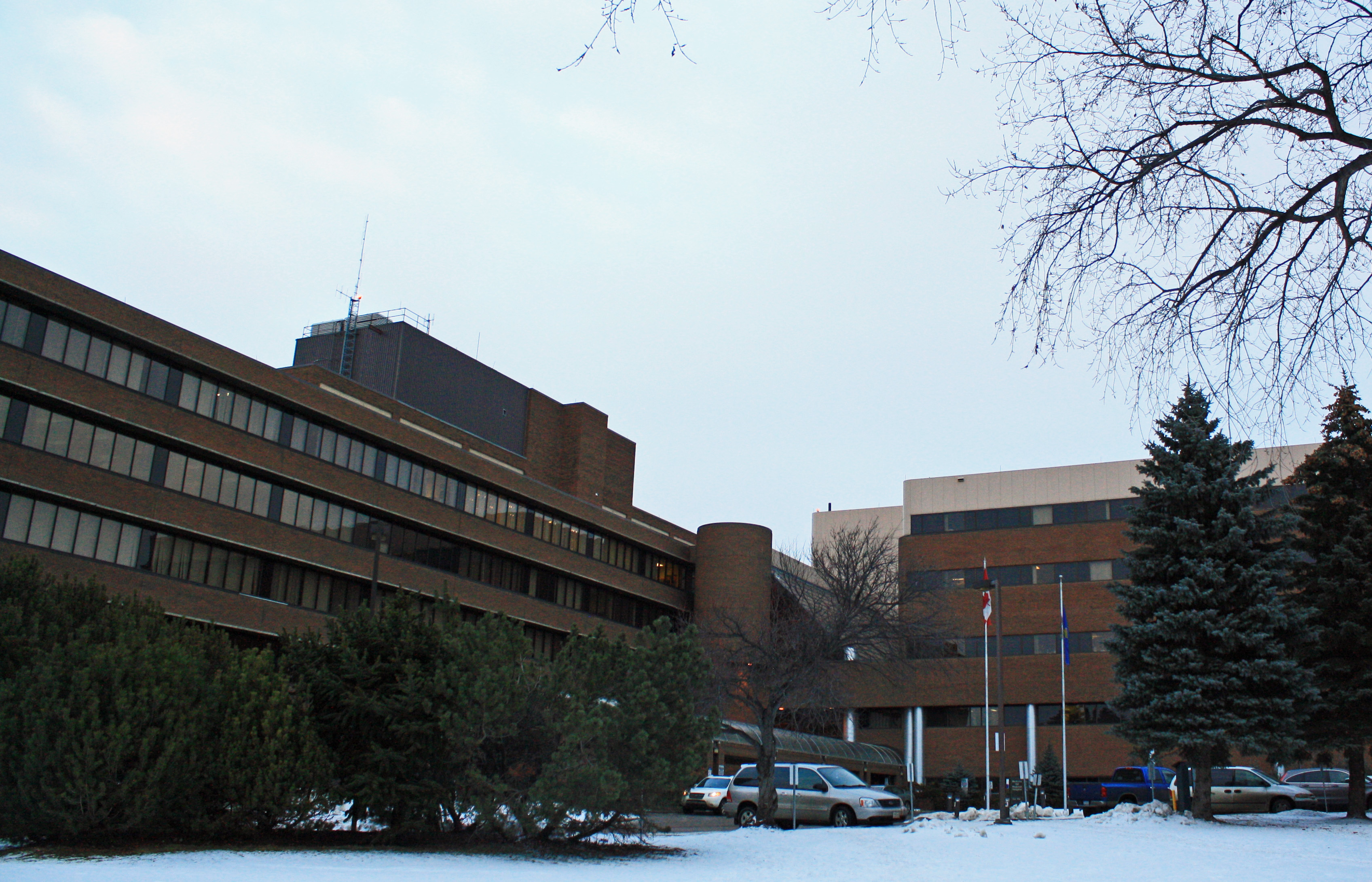 Exterior view of Medicine Hat Regional Hospital